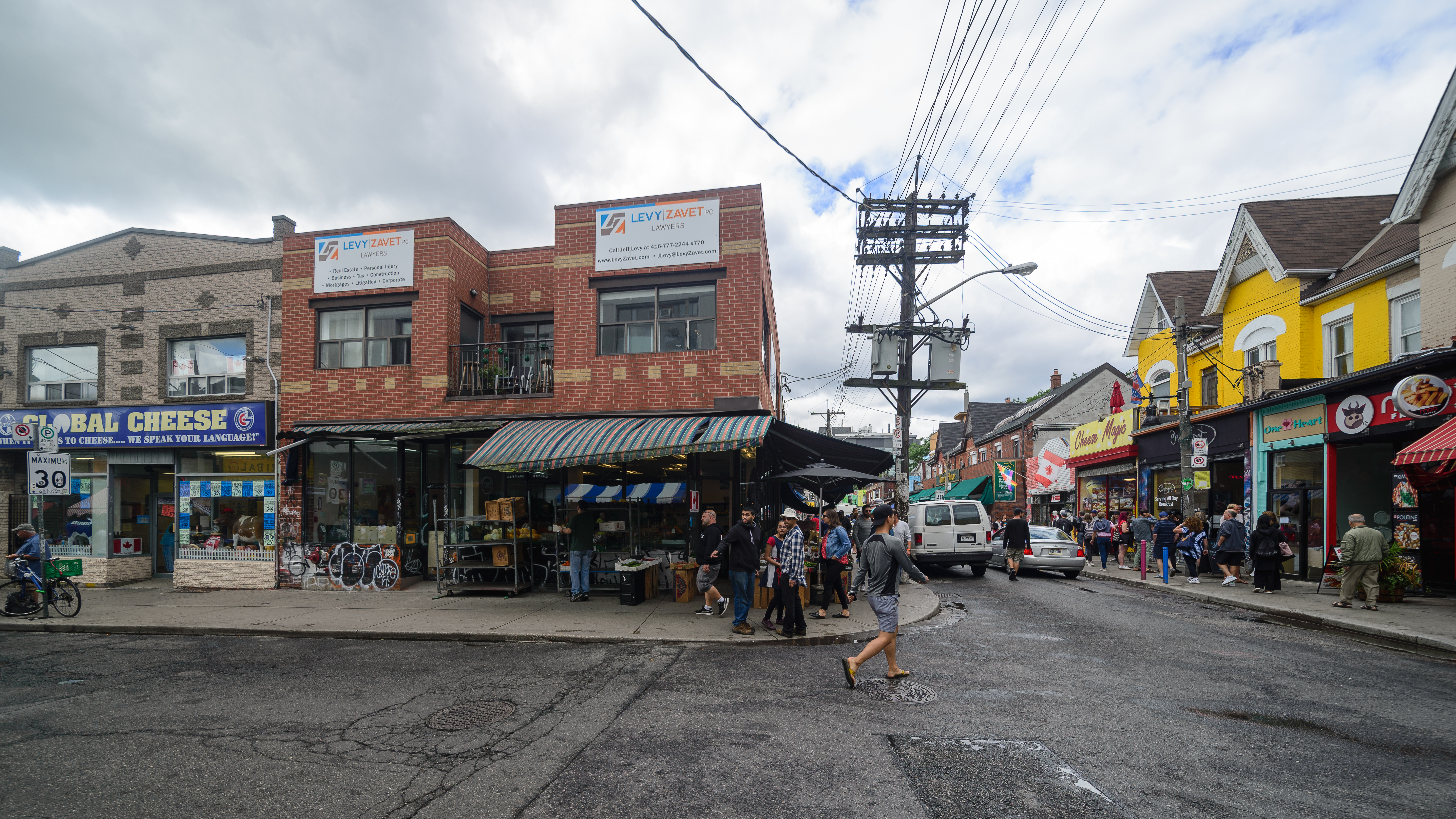 Kensington Market, Toronto. Intersection of Kensington Avenue (left) and Baldwin street.